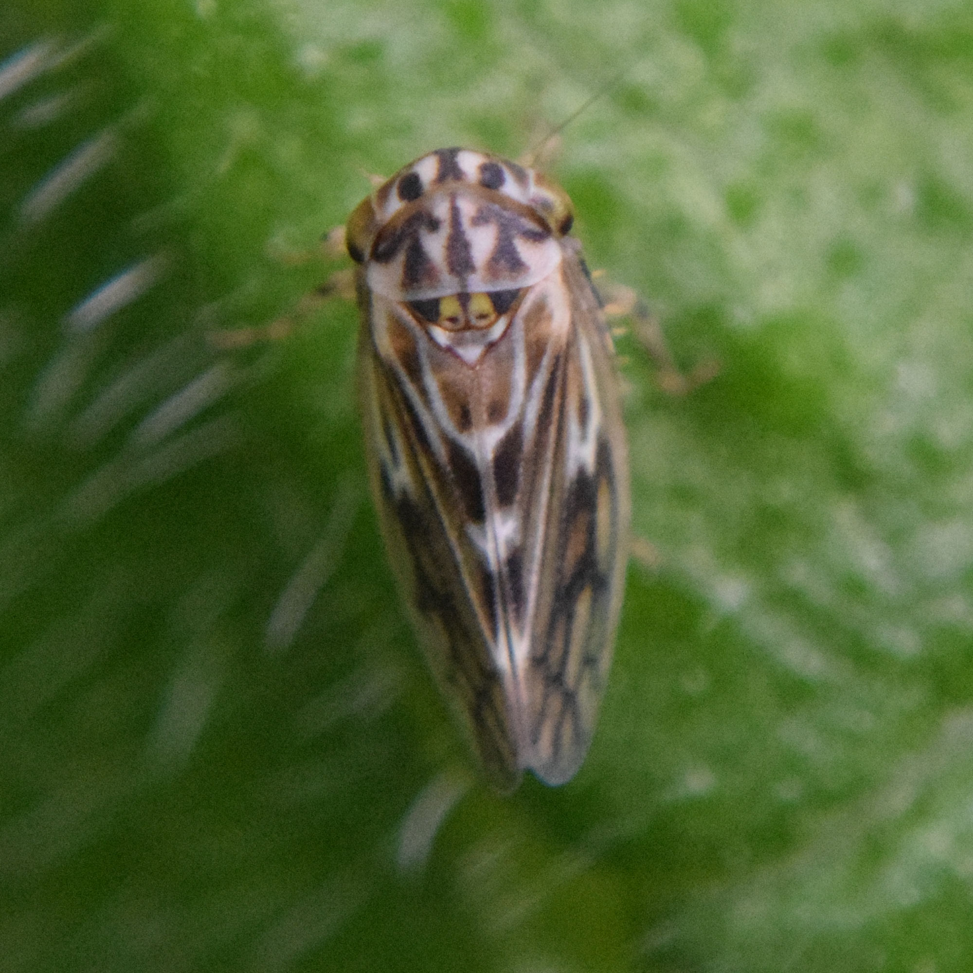 Agallia_consobrina photographed in Gwydir Street, Cambridge, August 2014.